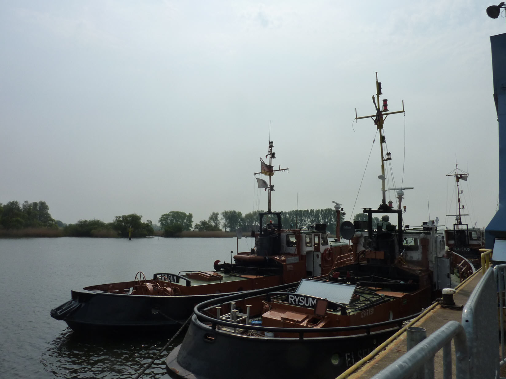 Boote in Elsfleth